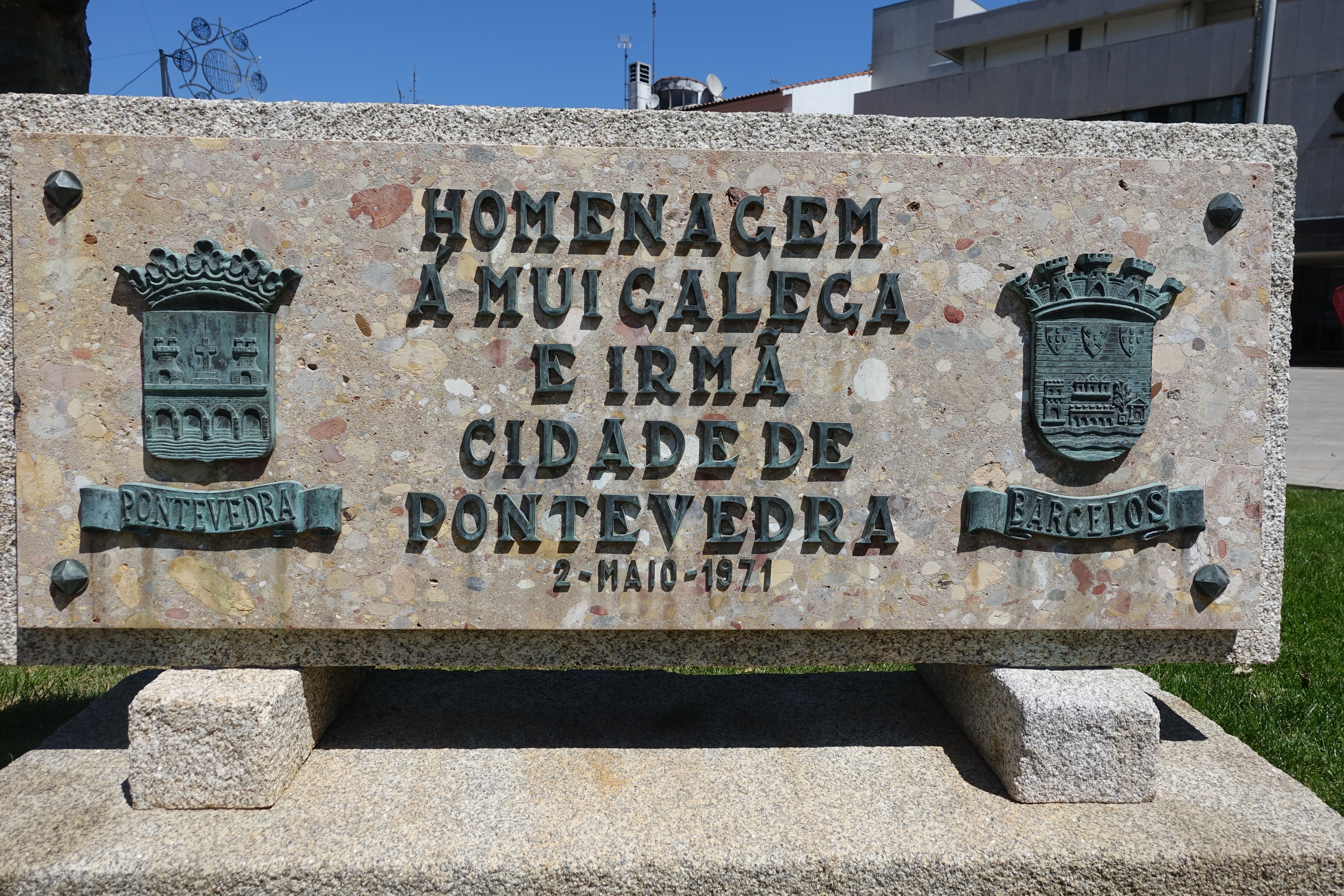 Plaque in Barcelos, Portugal.